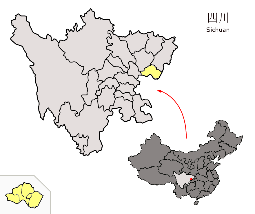 Location of Guang'an Prefecture (yellow) within Sichuan province of China Map drawn in october 2007 using various sources, mainly : Sichuan province administrative regions GIS data: 1:1M, County level, 1990 Sichuan Counties map from